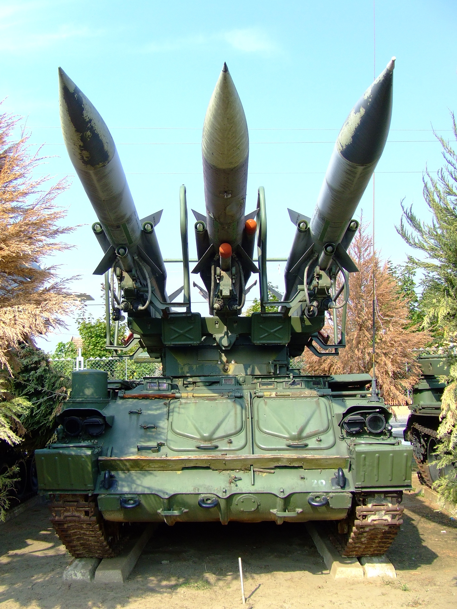 Army History Museum and Park in Kecel